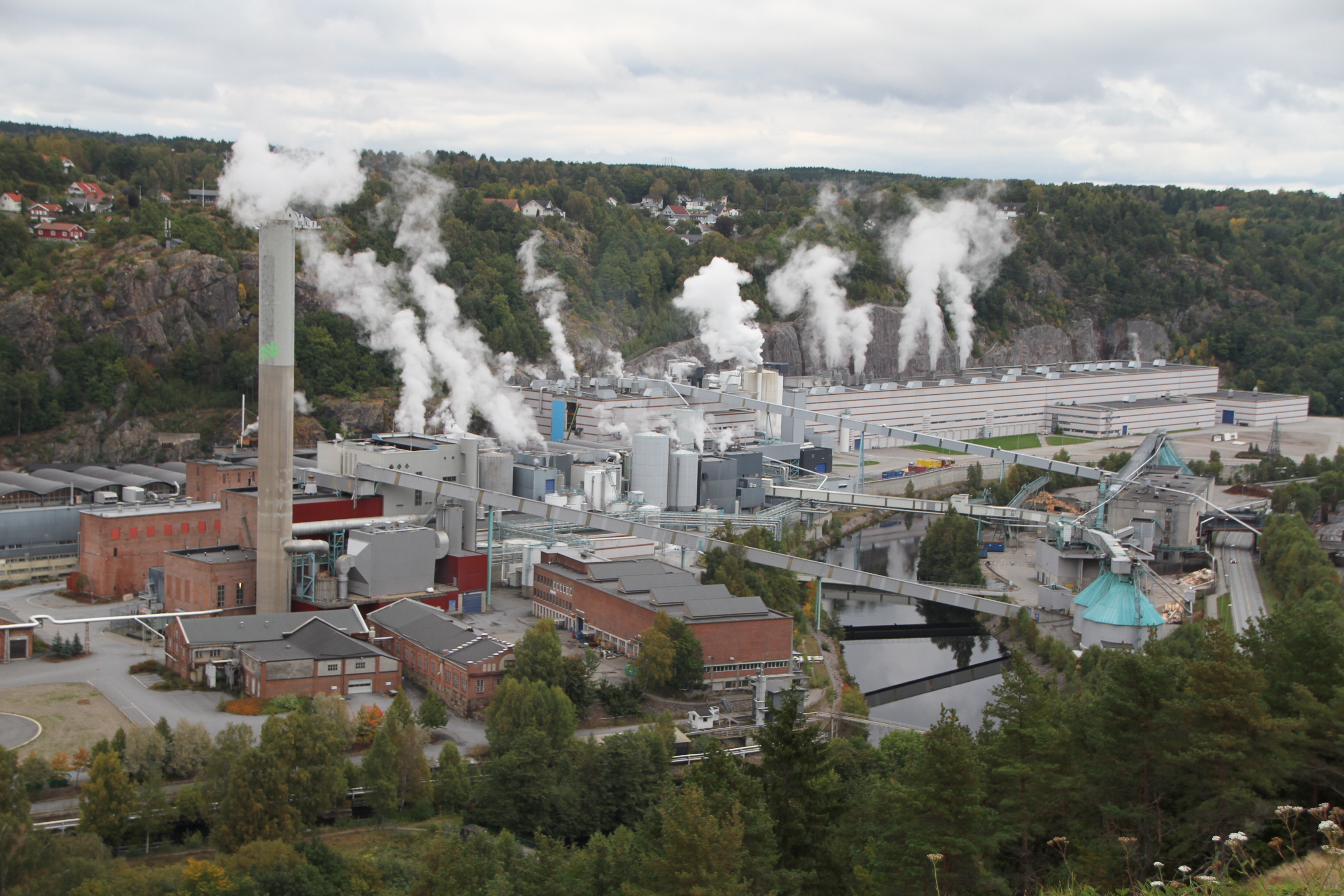 Saugbruksforeningen cellulose- og papirfabrikk ved elva Tista i Halden.